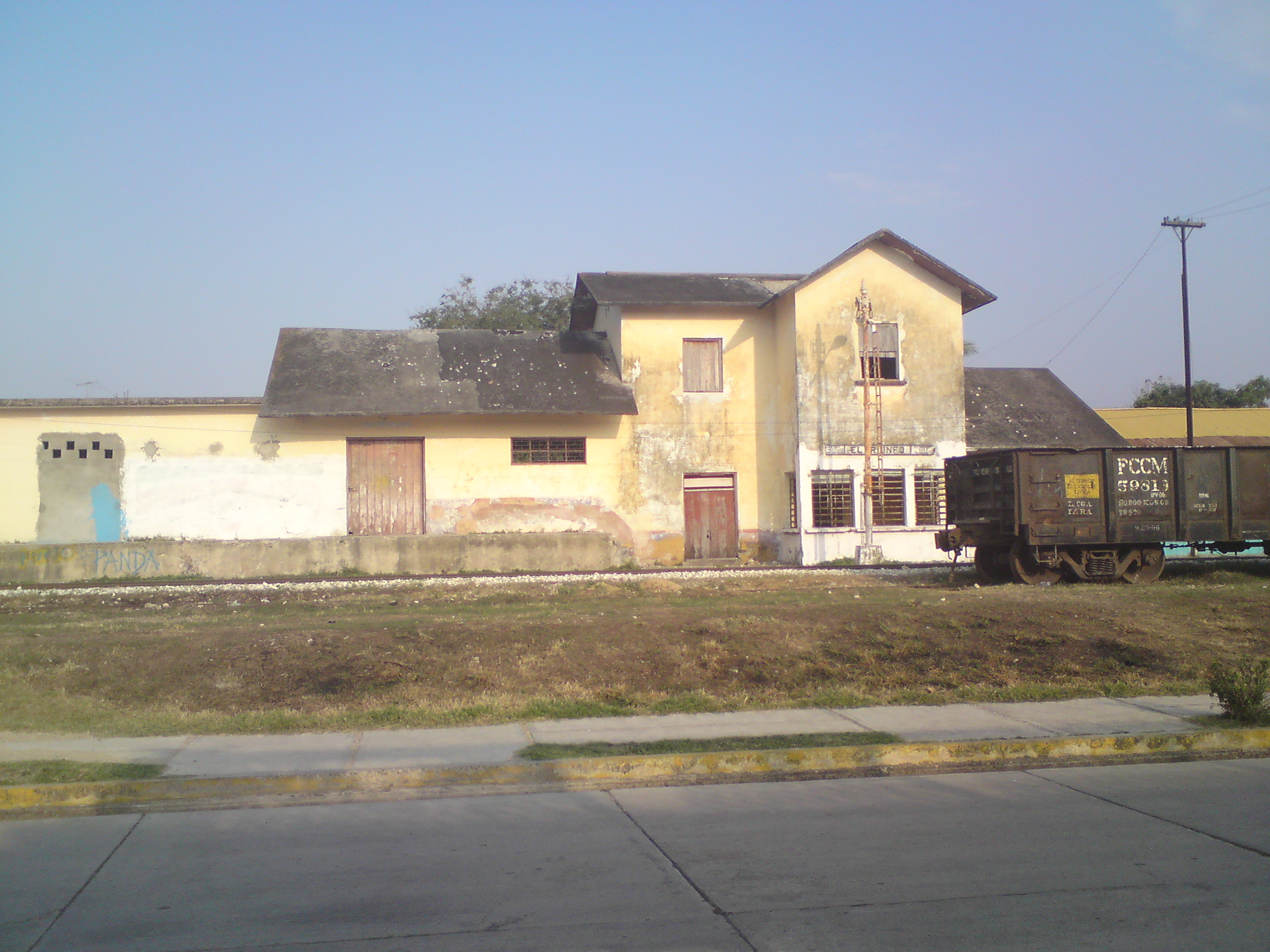 Station Villa El Triunfo, Balancán, Tabasco. You're currently on abandonment, and that since the railway ceased to carry passengers, the railway boom process in the various communities that benefited were including this one. It crosses from north to south, is located in the center of the town, between the only two avenues of the place. From here, the population was connected primarily with the cities of Merida and Coatzacoalcos in Yucatan and Veracruz respectively.